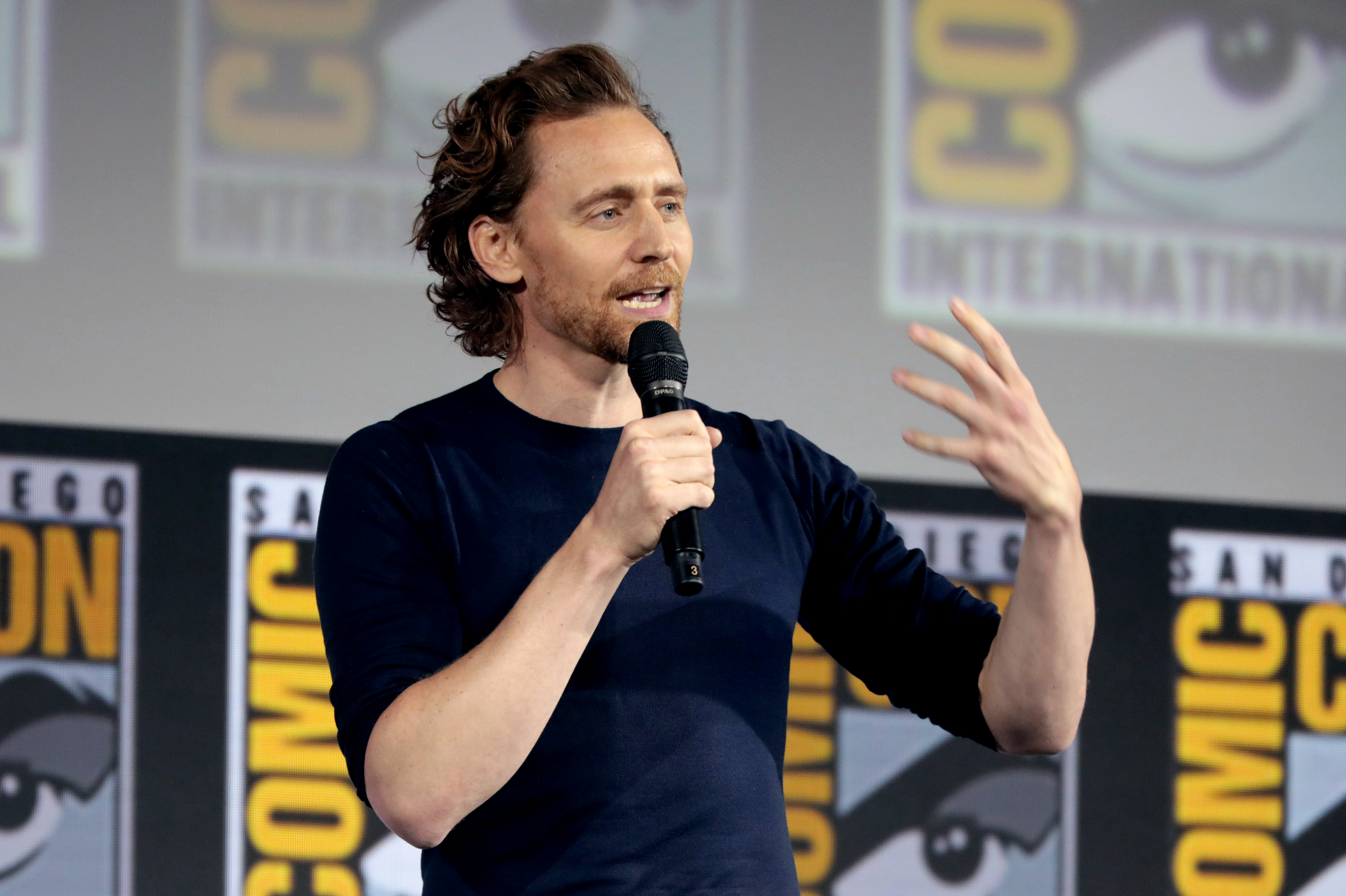 Tom Hiddleston speaking at the 2019 San Diego Comic Con International, for "Loki", at the San Diego Convention Center in San Diego, California.